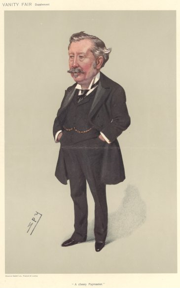 Caricature of The Rt Hon RK Causton MP. Caption read "A cheery Paymaster".